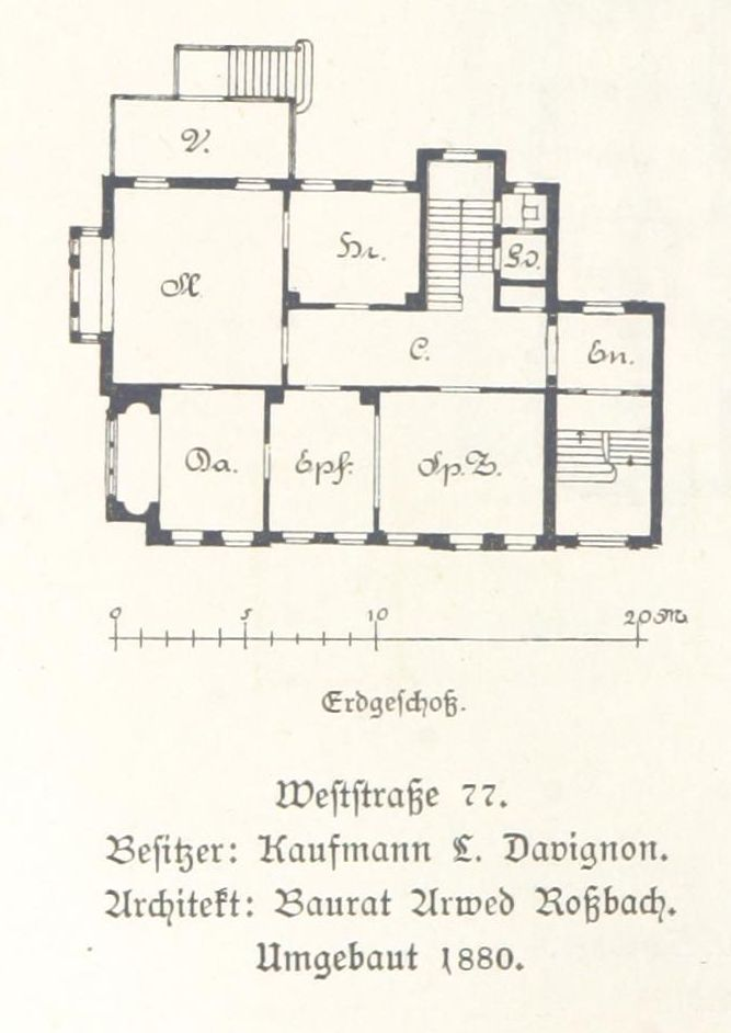 Villa d' Avignon, Friedrich-Ebert-Straße 77 in Leipzig, entworfen von Arwed Roßbach, Grundriss.JPG